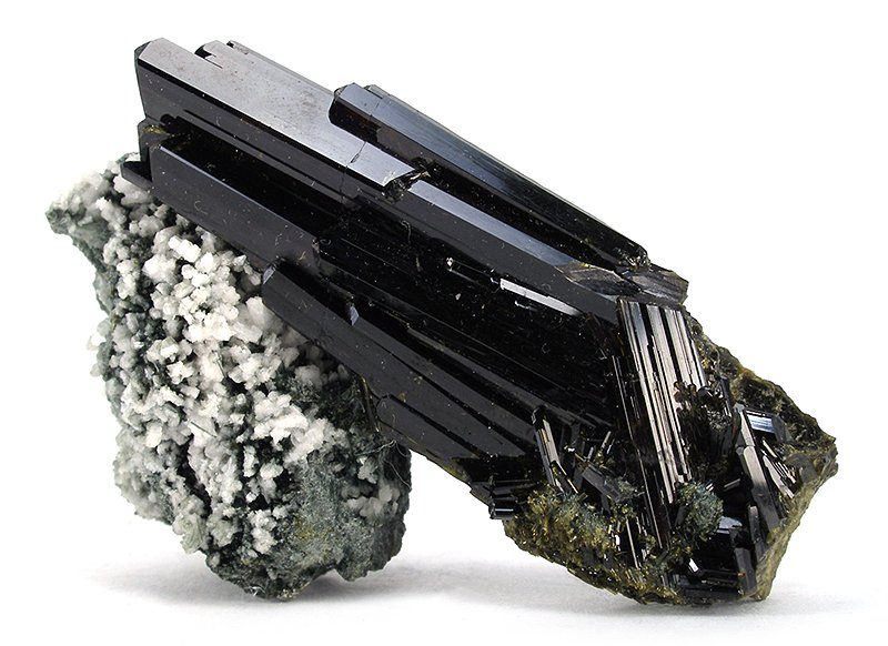 Actinolite, Dolomite, Epidote Locality: Knappenwand, Knappenwand area, Untersulzbach valley, Hohe Tauern Mts, Salzburg, Austria (Locality at ) Size: small cabinet, 9 x 6.5 x 5.9 cm Epidote with Byssolite and Dolomite This is a visually impressive epidote from the classic old locality, with unusually stoudt and thick crystals. They have lustre like glass! The terminations are remarkably 3-dimensional and stand out dramatically from the matrix which acts as a natural prop to the crystals for display purposes. You can see there is one hairline crack here, a repair. It it were not repaired, this would be a 25k piece for the size and beauty, and the rarity on matrix. So, while there is this problem, the price is definitely adjusted accordingly and you get a piece that LOOKS like it is far more valuable, and certainly has more visual impact period, than you could normally get in this price range.